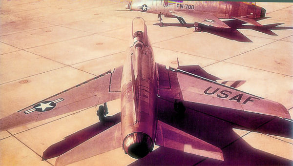 North American F-100A Super Sabres of the 479th TFW, George Air Force Base, California.